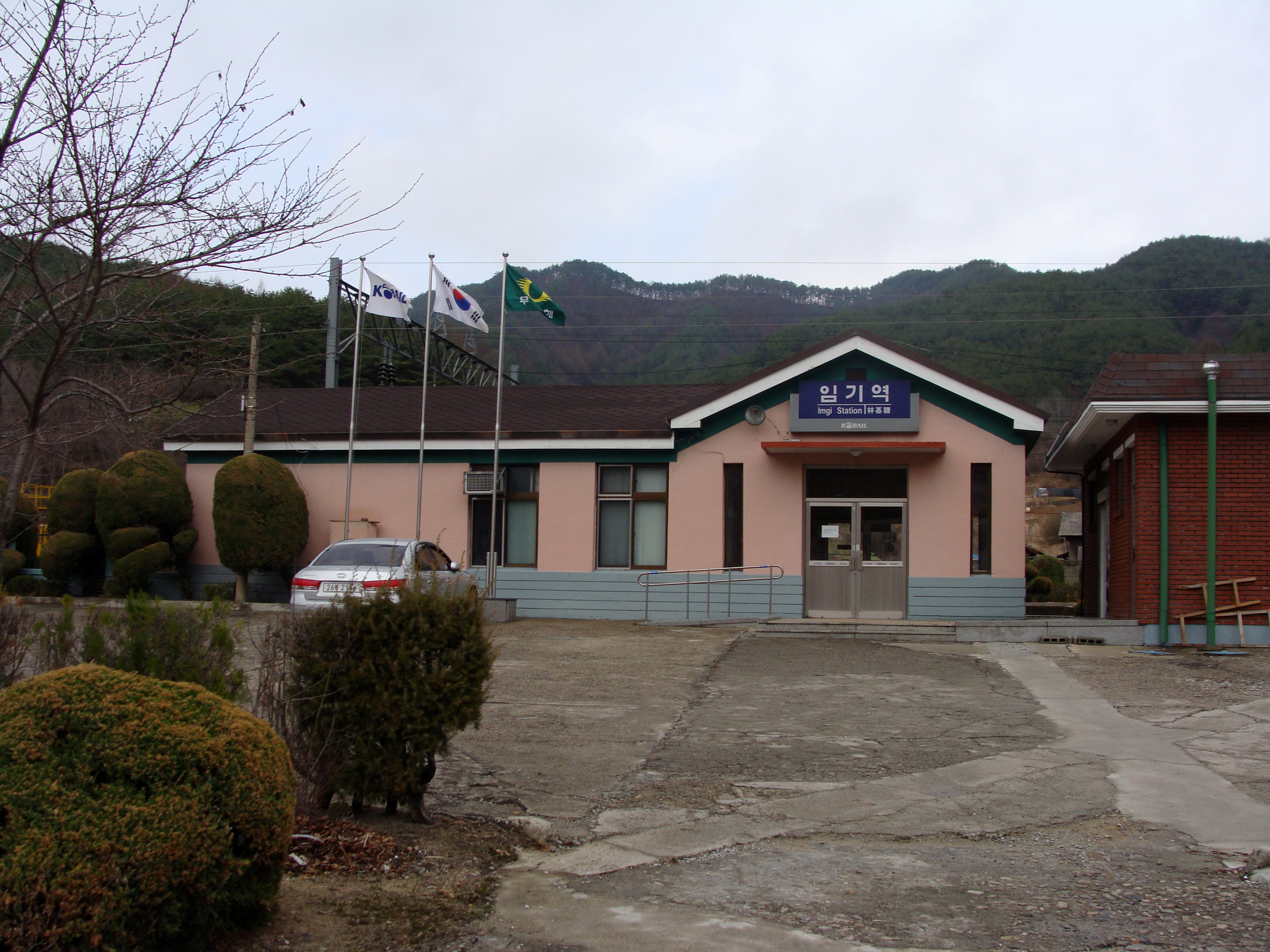 Imgi Station of Yeongdong Railway Line, South Korea